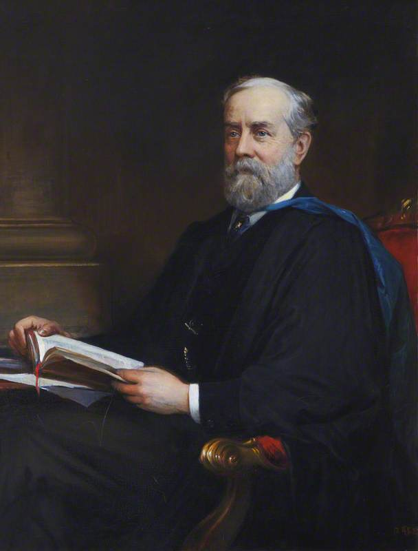 A portrait of Thomas Spencer Baynes, done in 1888 by Lowes Cato Dickinson (1819 – 1908), a Victorian painter from London. It now hangs in the Senate Room of the University of St. Andrews in Scotland. Baynes was the chief editor of the celebrated 9th edition of the Encyclopædia Britannica, in which he was assisted after 1880 by William Robertson Smith. Baynes was the first English-born editor of the Britannica; all earlier editors were Scottish.